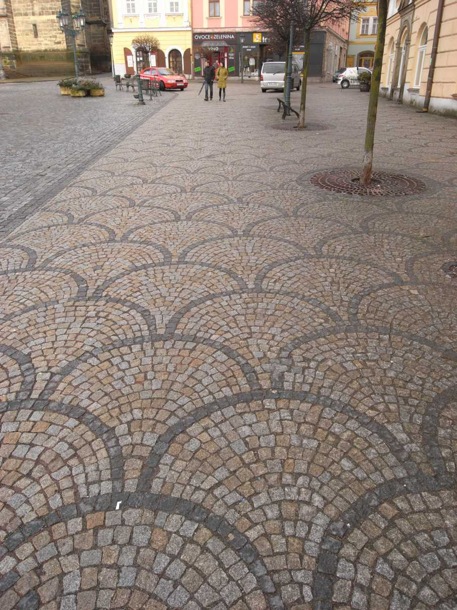 Chrudim, market-place with new cobblestones (granite Mrakotin, granodiorite Hlinsko)